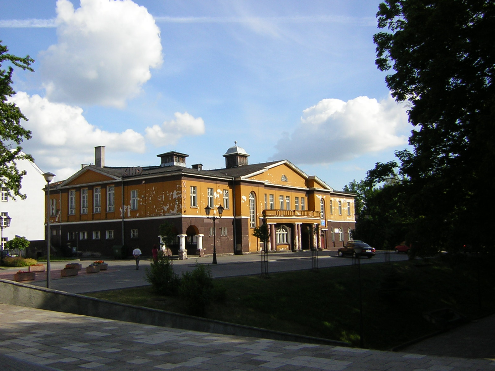 Cinema of Iława